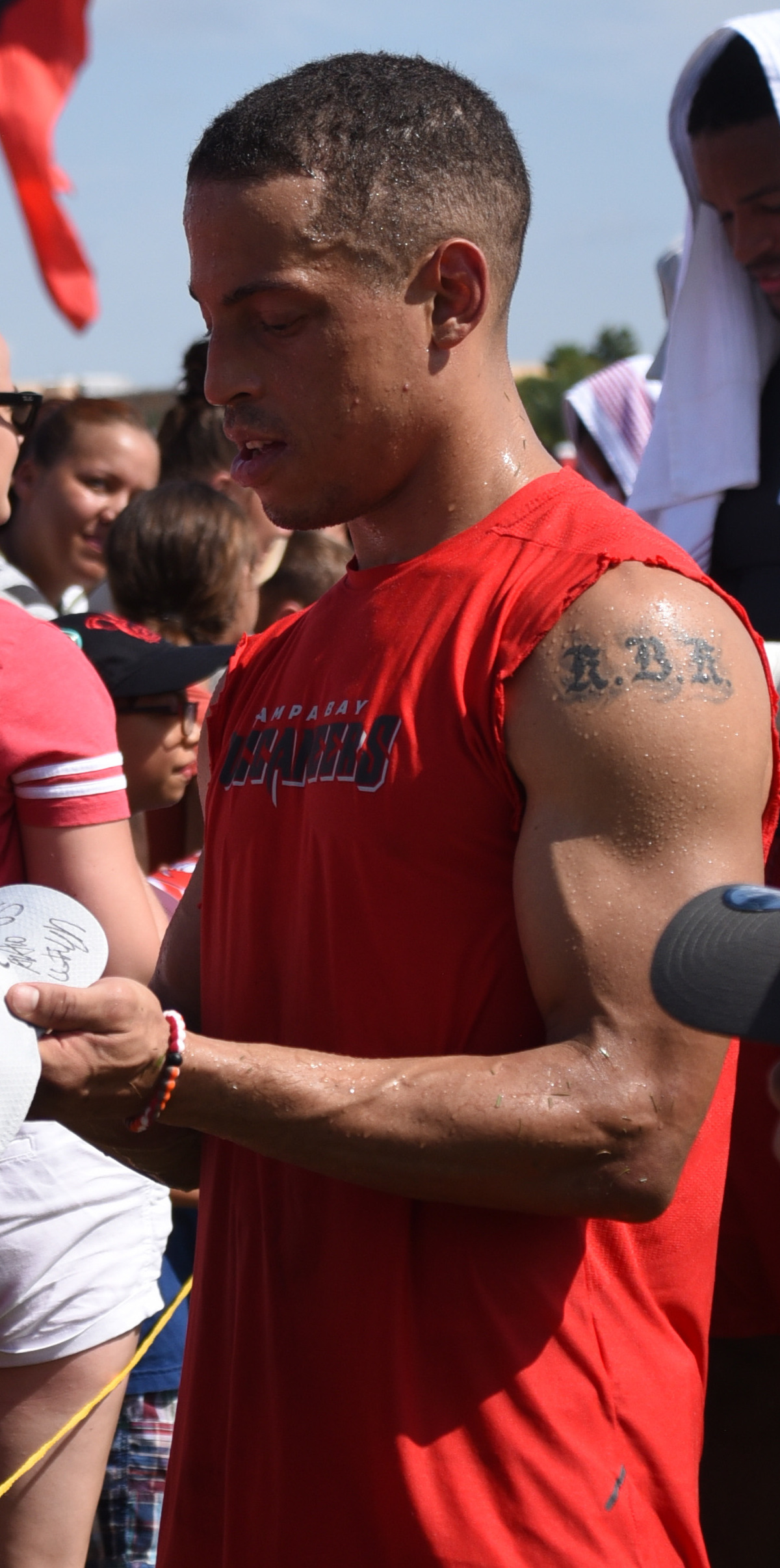 Tampa Bay Buccaneers cornerback Brent Grimes signs autographs for fans at training camp on July 28, 2018 at One Buc Place in Tampa, Fla. After camp ended, the players signed autographs and took photos with fans.